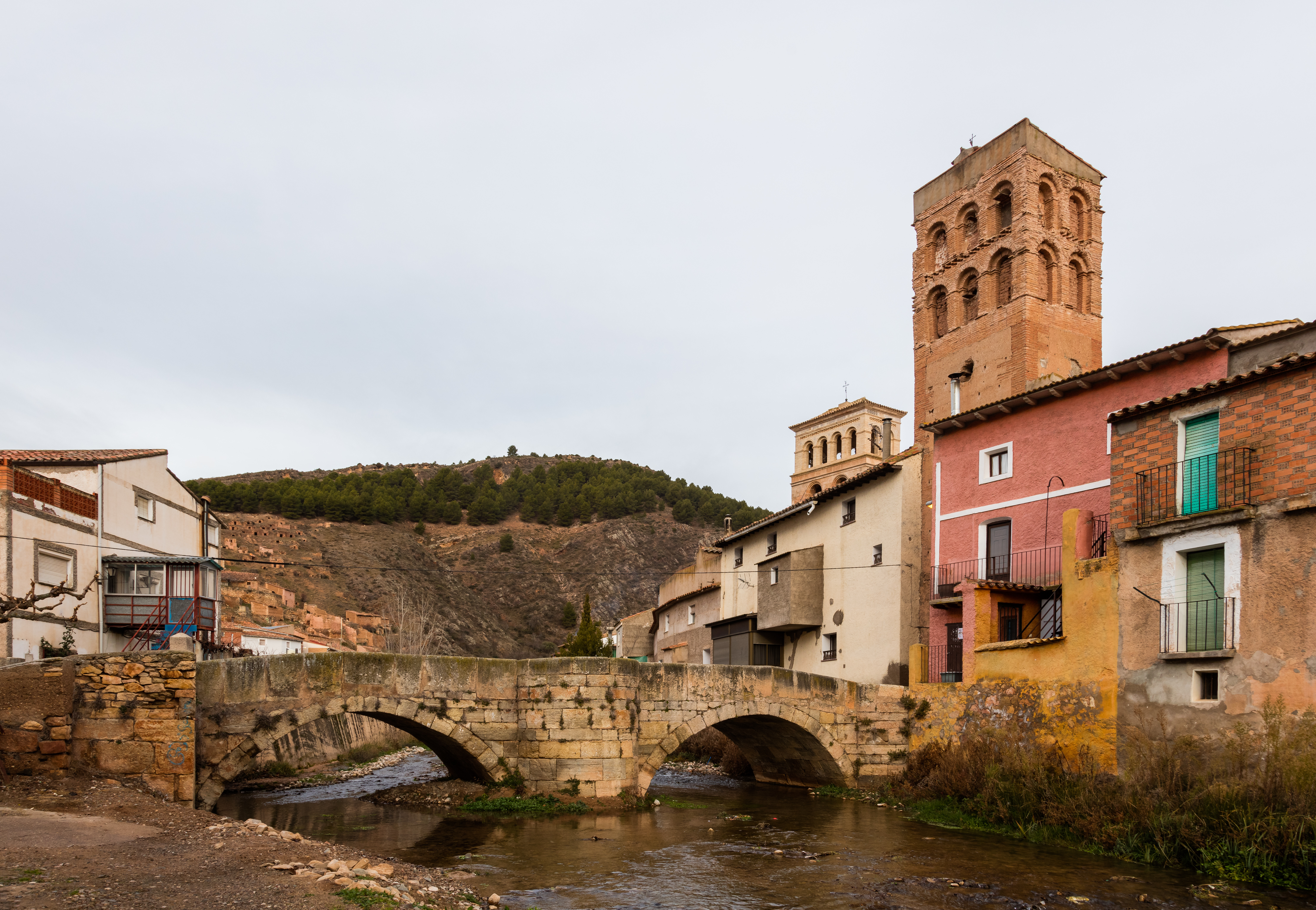 Ancient roman bridge and tower of the city walls, Zaragoza, Spain